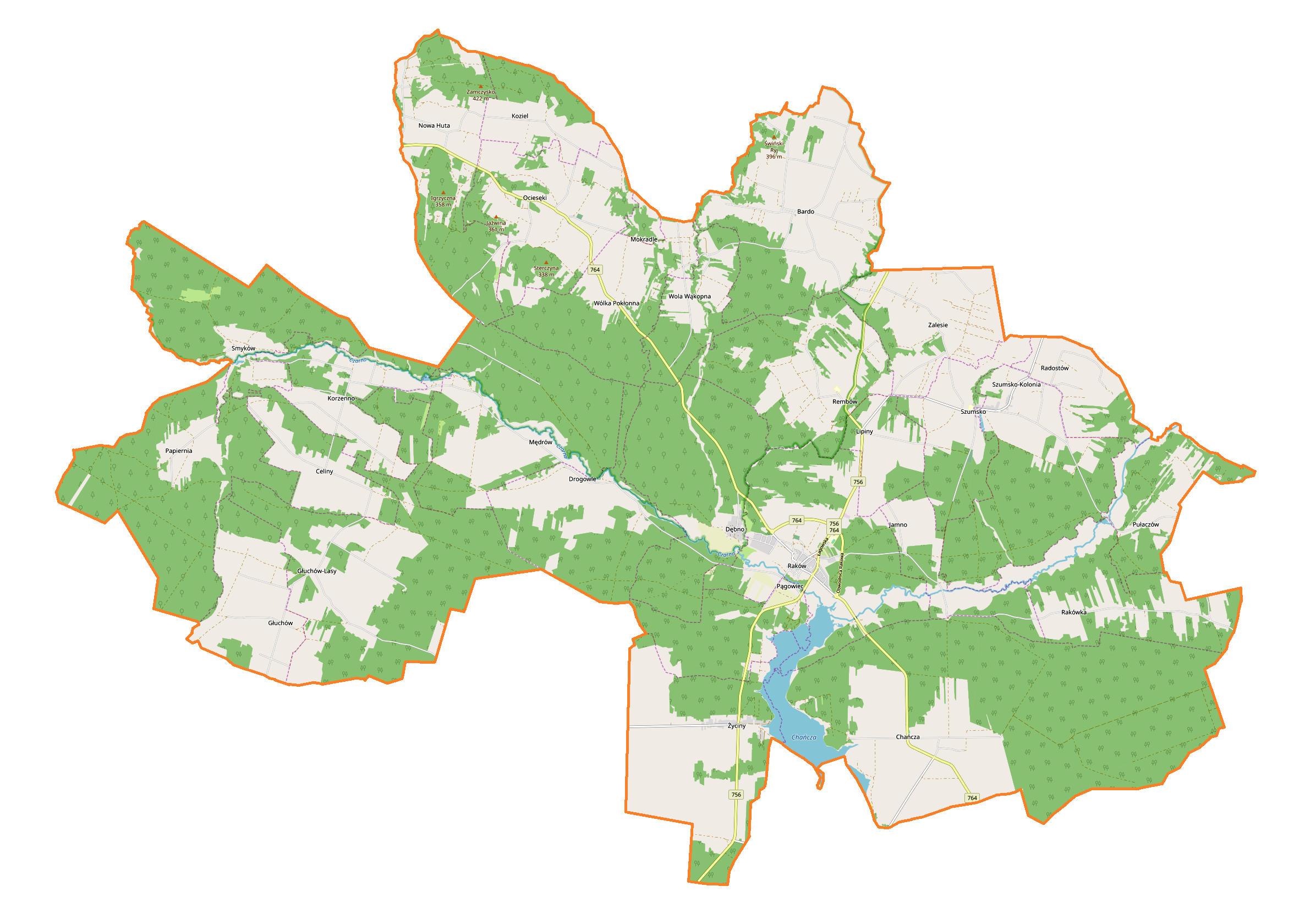 Location map